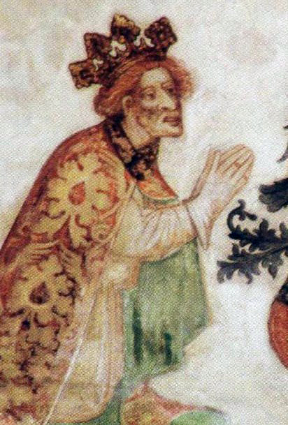 Rupert I of Germany.